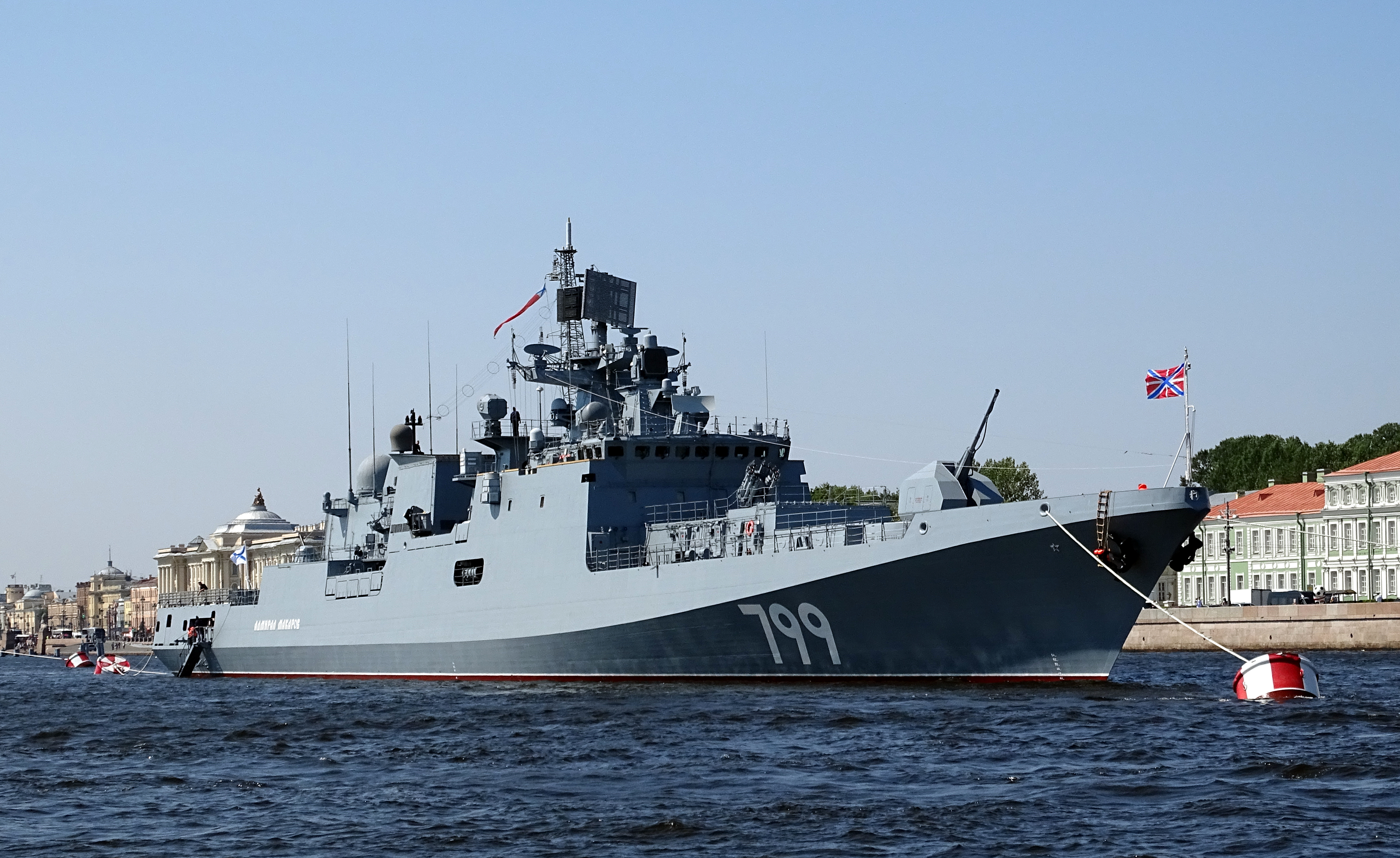 The frigate Admiral Makarov of the Russian Baltic Fleet anchored at Saint Petersburg.